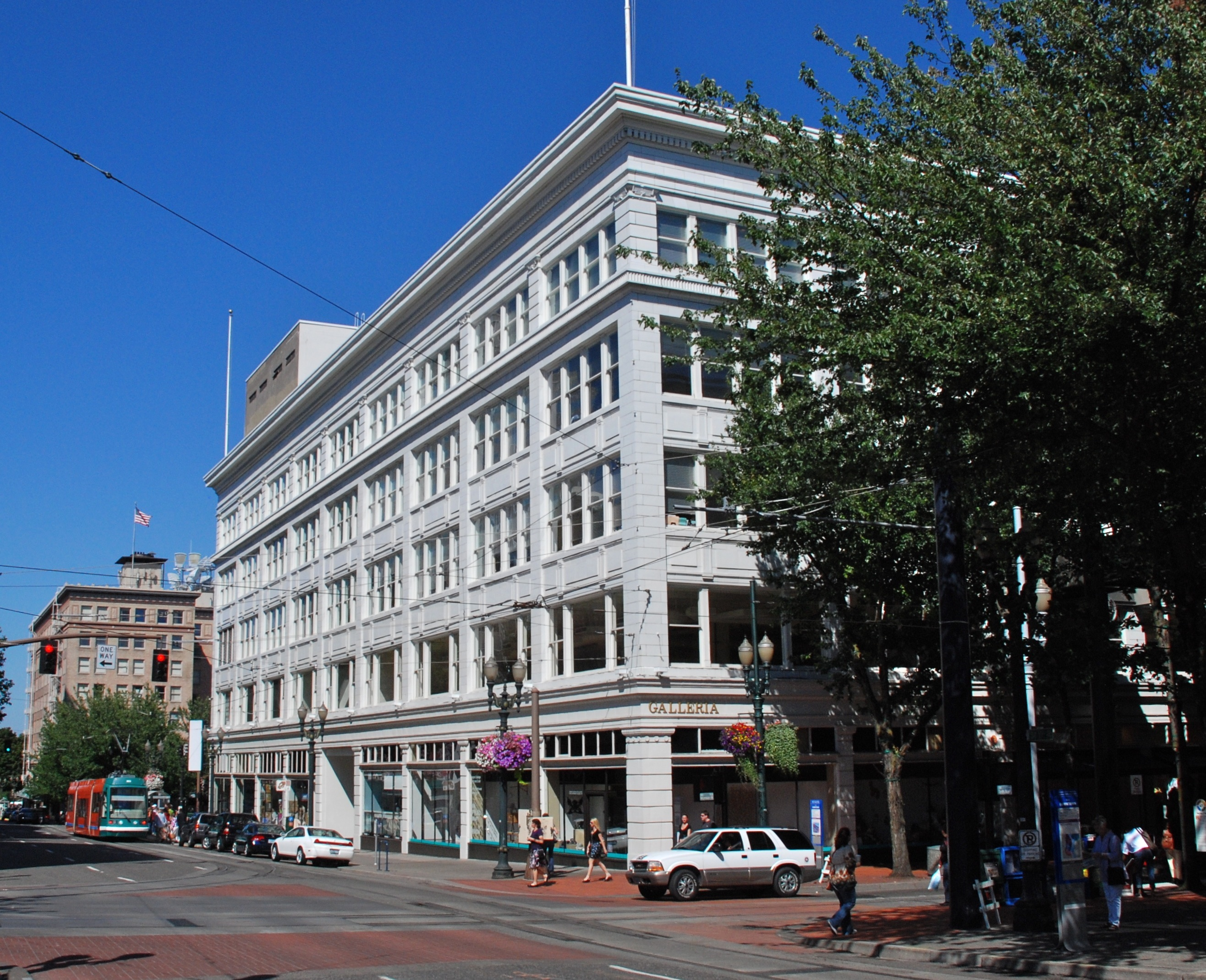 The Galleria shopping center/office building (built 1910) in downtown Portland, Oregon, United States, is listed on the US National Register of Historic Places (NRHP) under its historic name of Olds, Wortman and King Department Store. From 1960–1974, it was a Rhodes department store. This 2011 photo is looking north on 10th Avenue at Morrison Street, showing the southwest corner of the building, which fills an entire city block. NRHP reference number 91000057